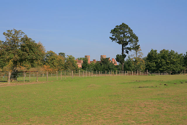 Grove Place, Upton Lane Formerly The Atherley School which moved to Romsey. I think this is now Grove Place Preparatory School but cannot find a web site for it.